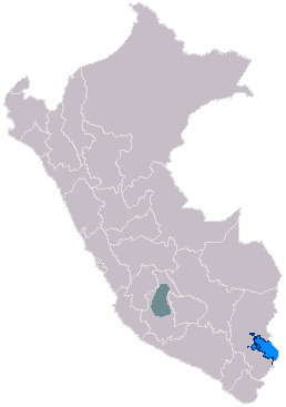 Mapa cultura huarpa